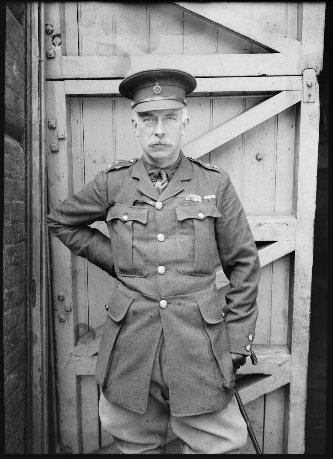 by Mrs Albert Broom (Christina Livingston), half-plate glass negative, 1900-1925